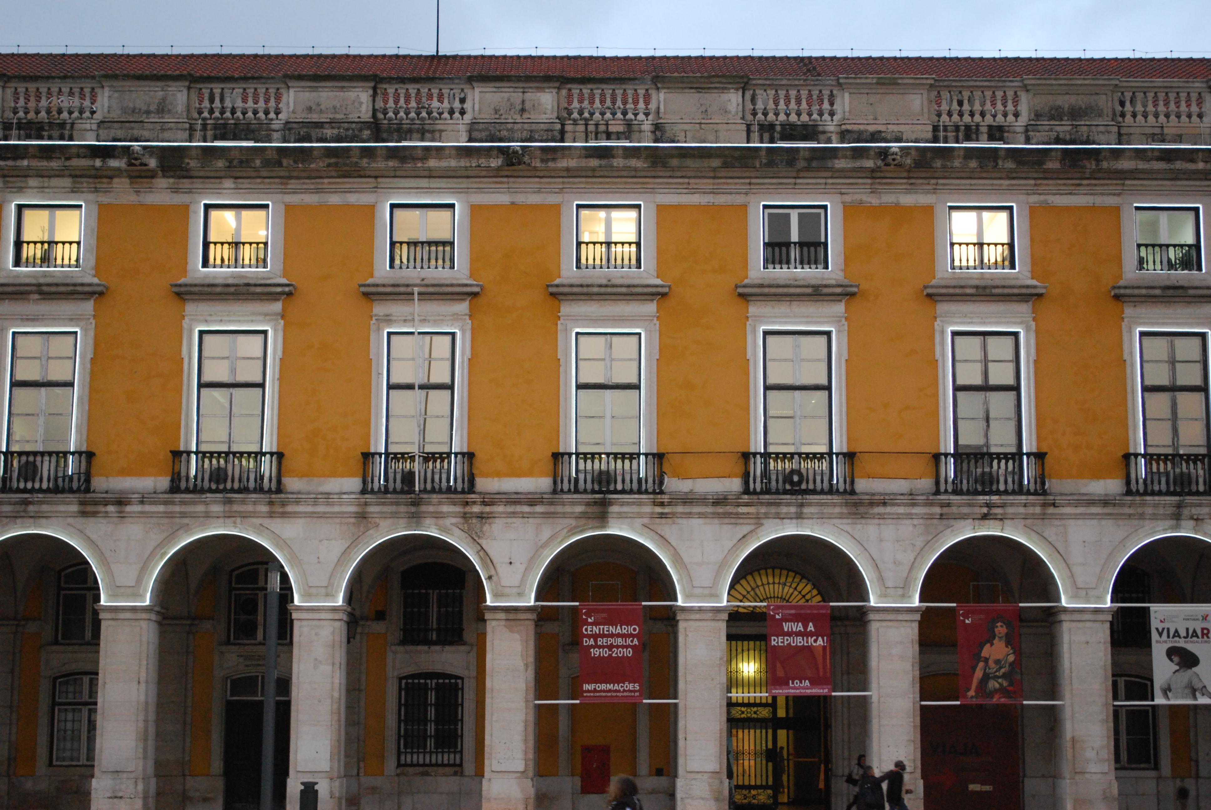 This file was uploaded for Wiki Loves Monuments in Portugal with the unique identifier 70275.